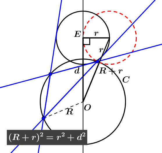 A lemma for Euler's theorem in geometry.